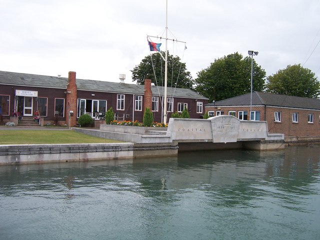 War Memorial - Gosport Coastal Forces Memorial situated inside Joint Services Adventurous Sail Training(JSSAST) area at Hornet, Gosport.